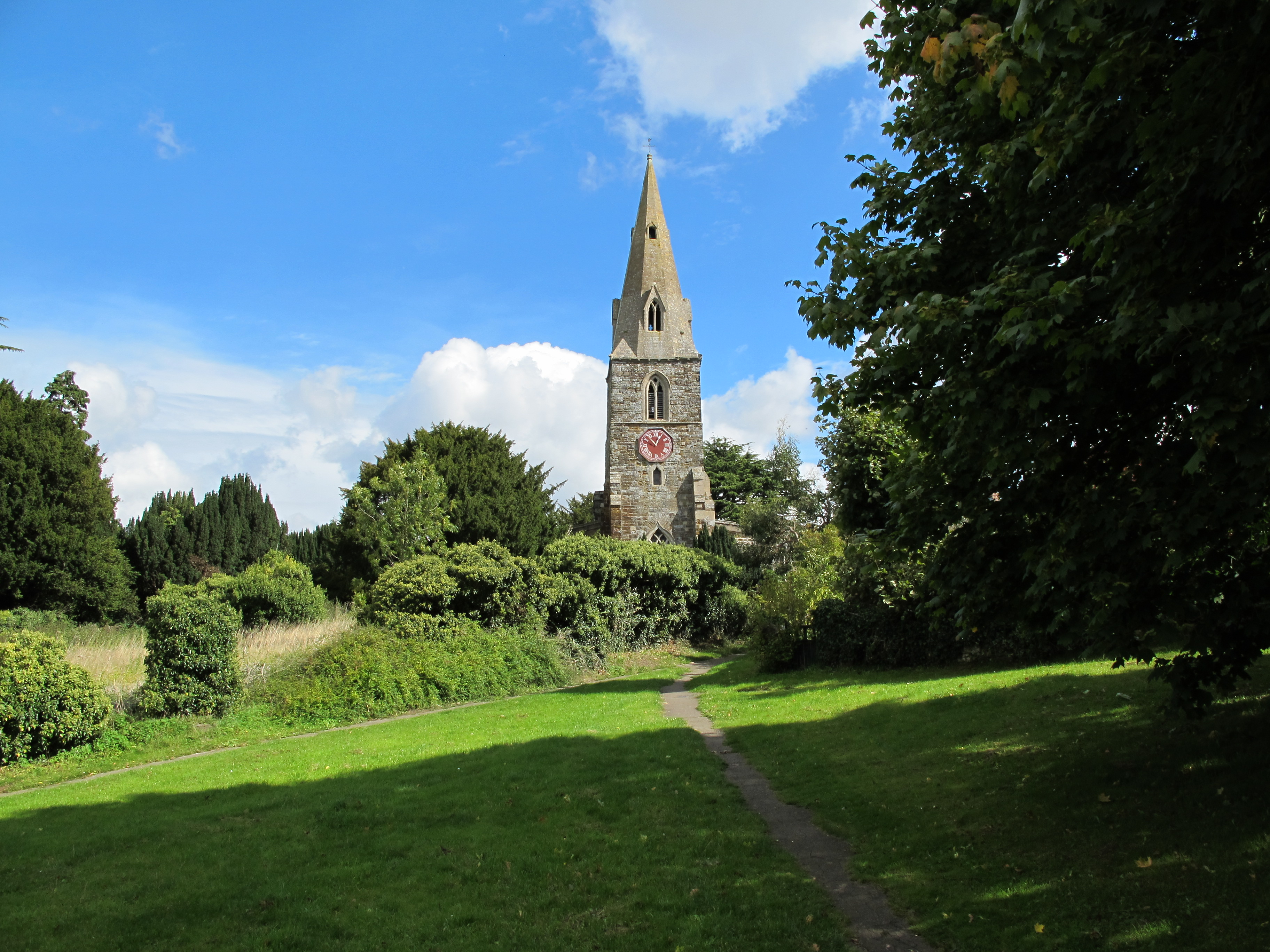 St Andrew's parish church, Broughton, Northamptonshire, seen from the southwest